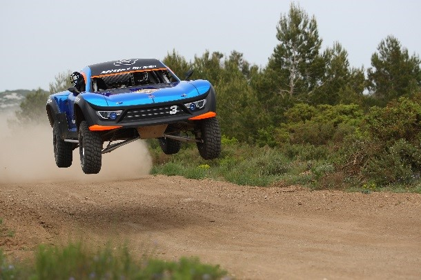 Offroad mitjet